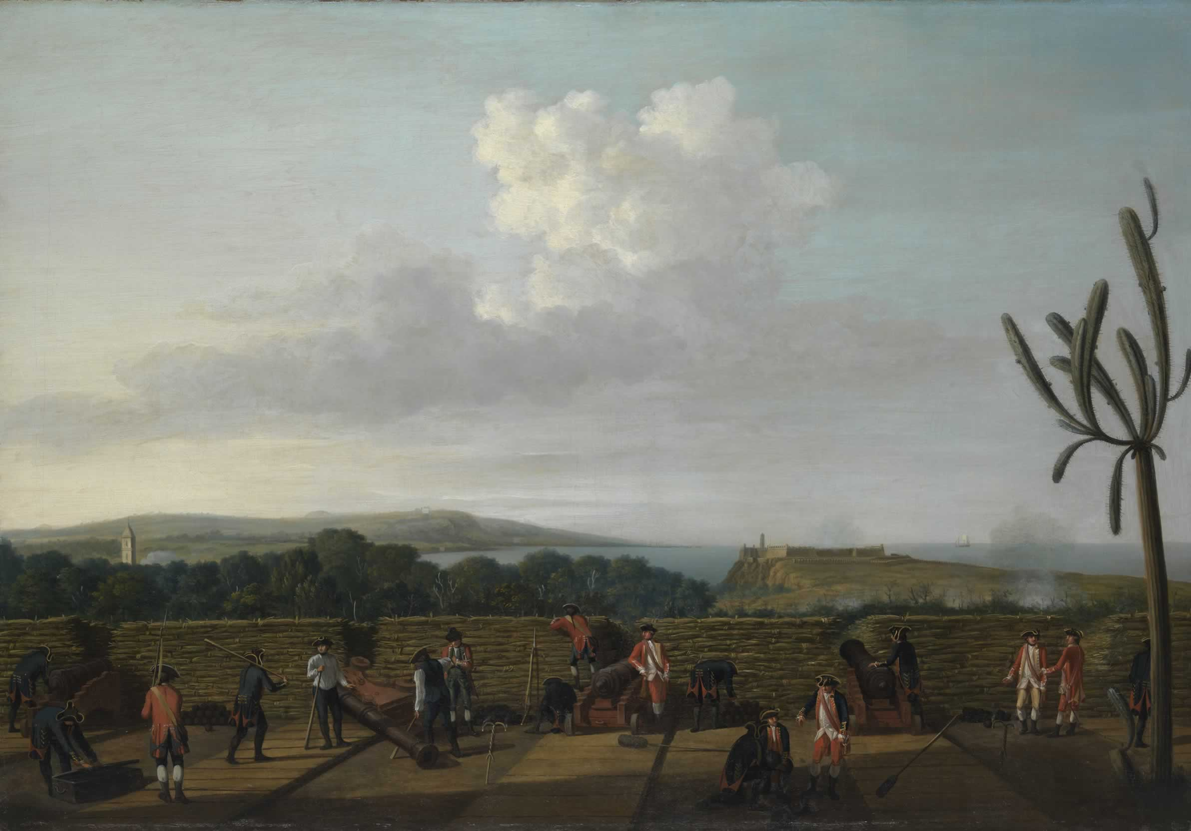 A depiction of an episode from the last major operation of the Seven Years War, 1756-63. It was part of England's offensive against Spain when she entered the war in support of France late in 1761. The British Government's response was immediately to plan large offensive amphibious operations against Spanish overseas possessions, particularly Havana, the capital of the western dominions and Manila, the capital of the eastern. Havana needed large forces for its capture and early in 1762 ships and troops were dispatched under Admiral Sir George Pocock and General the Earl of Albemarle. The force which descended on Cuba consisted of 22 ships of the line, four 50-gun ships, three 40-gunners, a dozen frigates and a dozen sloops and bomb vessels. In addition there were troopships, storeships, and hospital ships. Pocock took this great fleet of about 180 sail through the dangerous Old Bahama Strait, from Jamaica, to take Havana by surprise. Havana, on Cuba's north coast, was guarded by the elevated Morro Castle which commanded both the entrance to its fine harbour, immediately to the west, and the town on the west side of the bay. The castle was built on rock, with massive rock-cut ditches defending it to landward. It was, however, overlooked by the high ground of the Cabana ridge (Los Cavannos) to the south-east. Despite Spanish defence of the ridge, the British managed to take it and set up a battery there from which to bombard the castle at a distance. This painting shows the inside of the battery, made from a timber platform with a parapet of fascines. The gunners wear blue coats. The Morro Castle can be seen in the distance on the right, with the bell-tower of Havana cathedral on the left. The main harbour lies below, hidden by the trees in the centre.